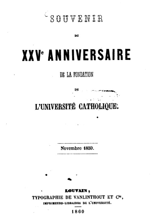 Souvenir du XXVe anniversaire de la fondation de l'Université catholique : Novembre 1859, Louvain, typographie Vanlinthout et Cie, 1860 : "Inaugurée à Malines, le 4 novembre 1834, l'Université catholique a célébré à Louvain, le jeudi 3 novembre 1859, sa vingt-cinquième année d'existence"Souvenir du XXVe anniversaire de la fondation de l'Université catholique: Novembre 1859.